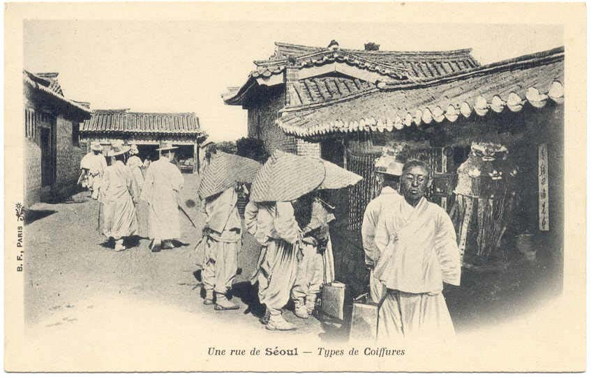 A street of old Seoul -- Types of headgears.